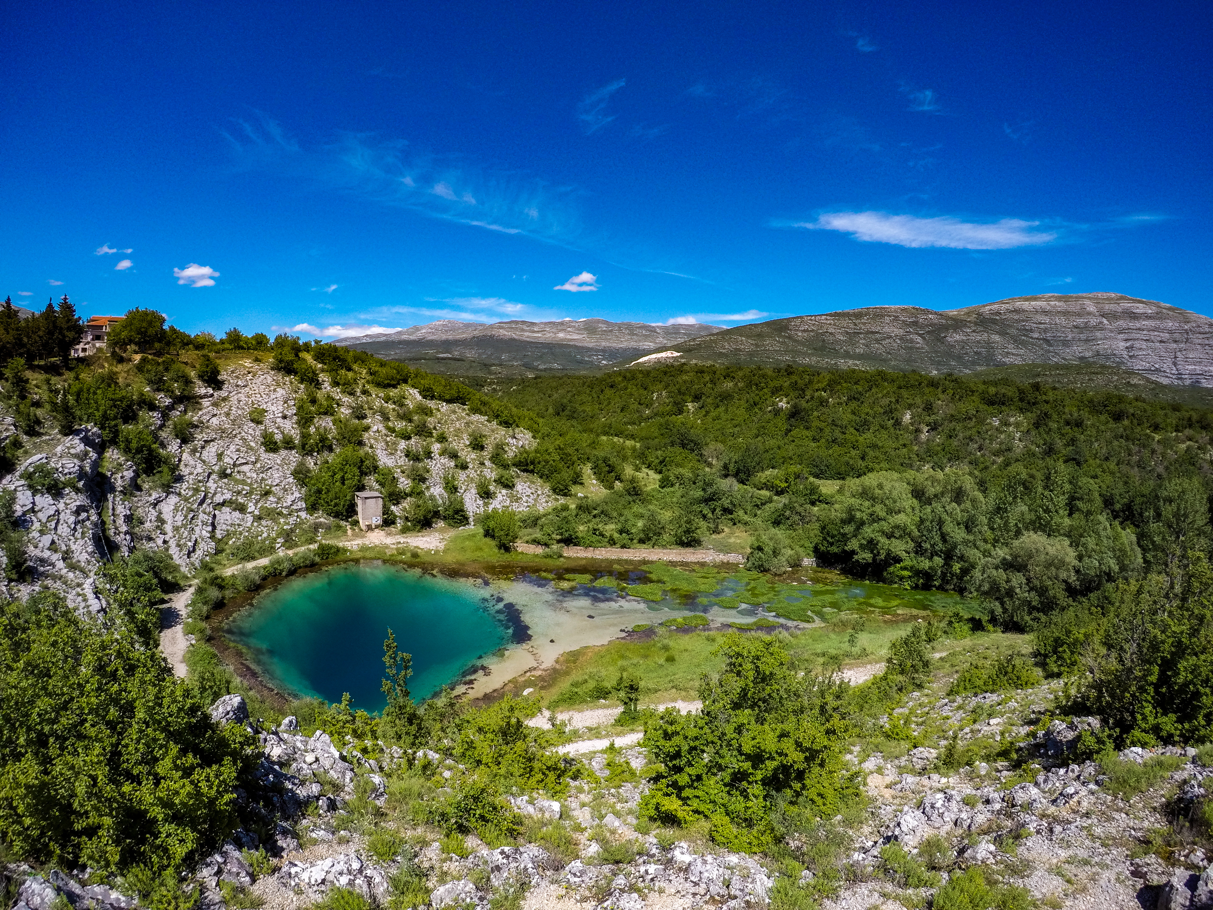 Cetina This is a a photo of a natural area in Croatia with ID: SL09